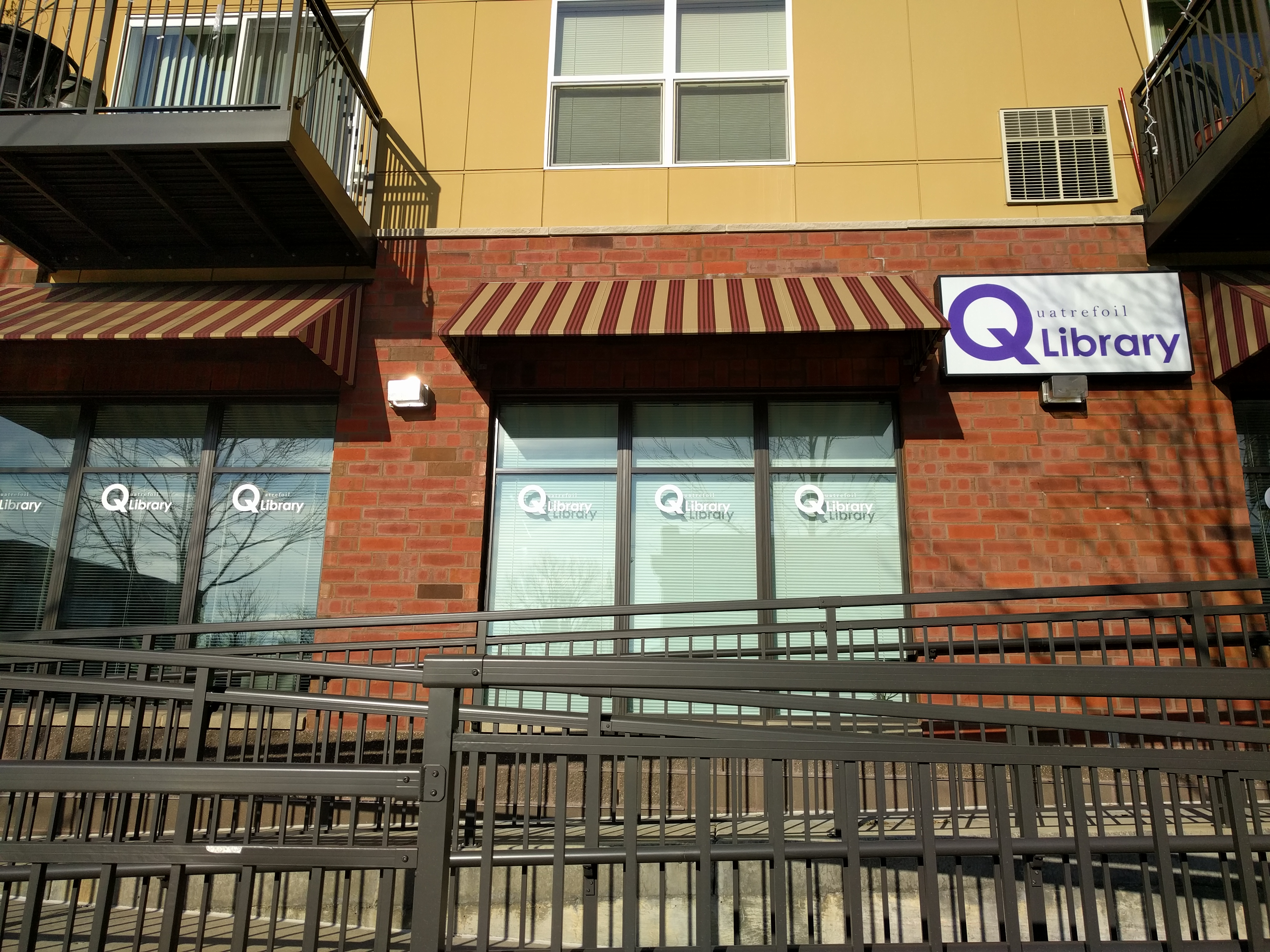 This is a photograph of the facade of the Quatrefoil Library, located in Minneapolis, Minnesota.